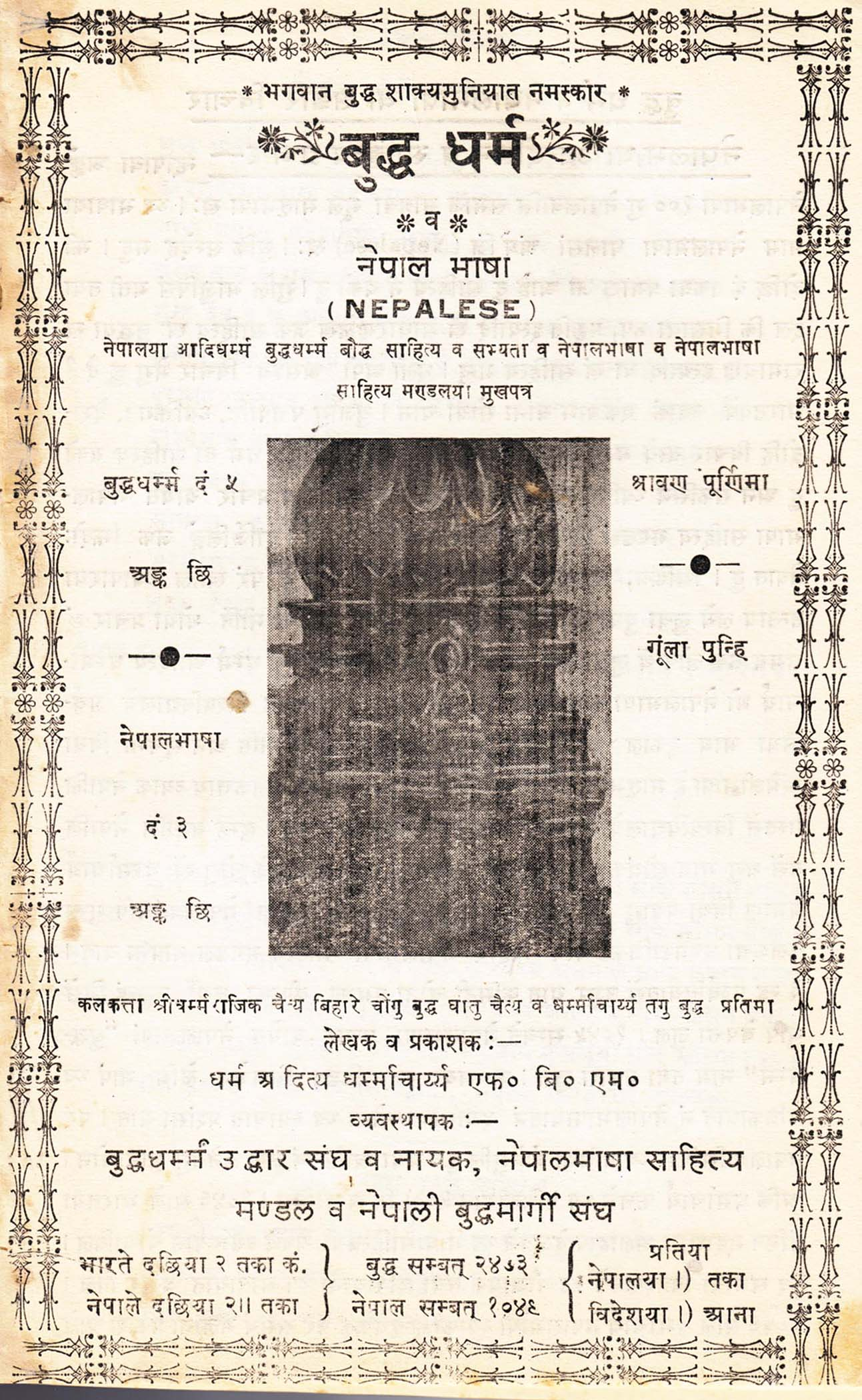 Scan of cover of "Buddha Dharma wa Nepal Bhasa" magazine 1929 issue.